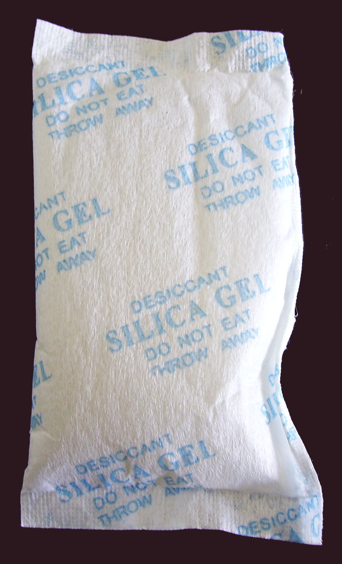 Silica gel packed in a 5x10 cm bag.